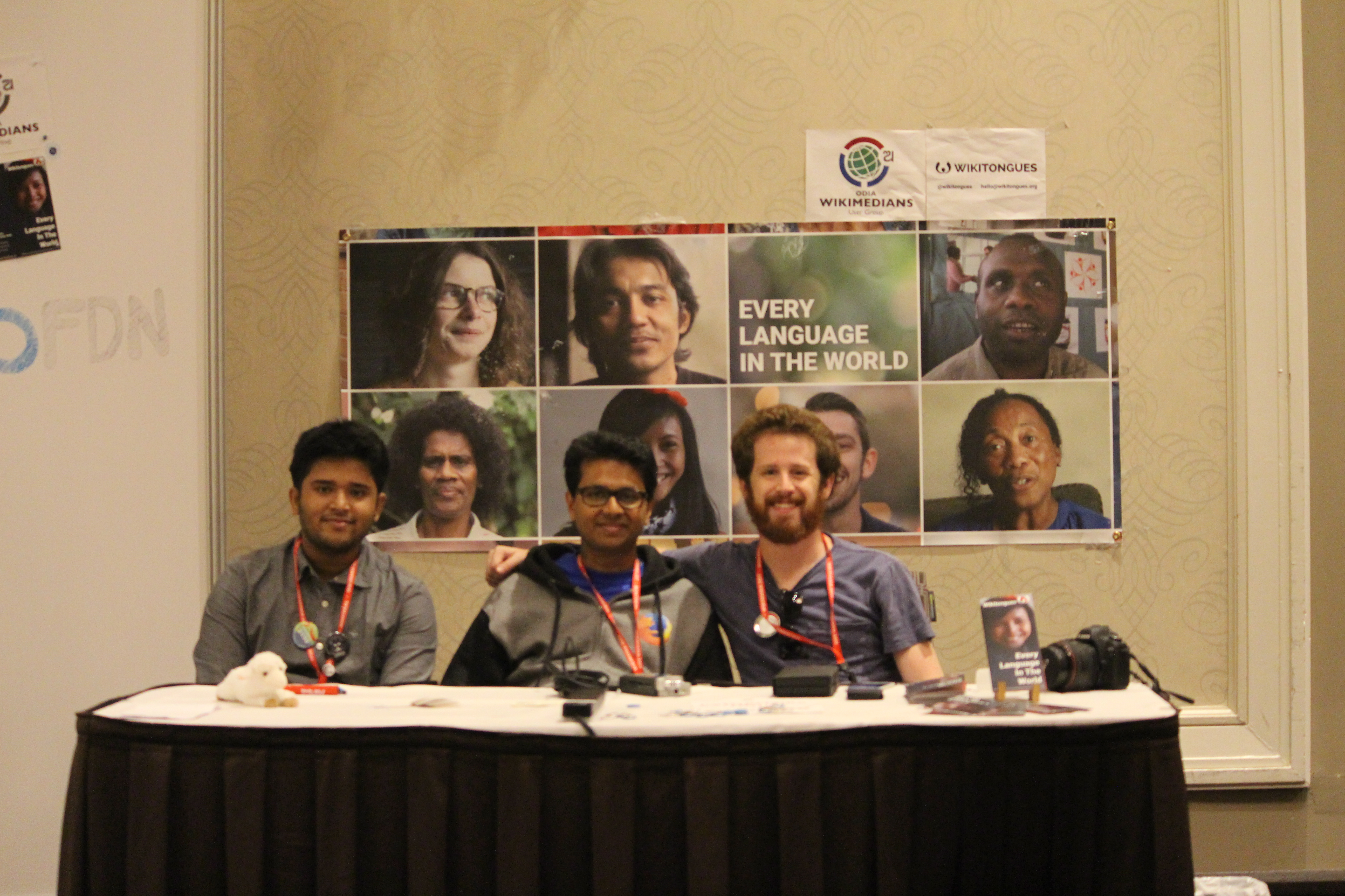 Odia Wikimedia Usergroup Kiosk in Wikimania 2017